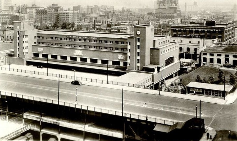 Postcard of Canadian National Railway's Central Station in Montreal, Quebec, Canada. The postcard is undated, but the slogan on the verso promoting the sale of war bonds suggests that the card was printed around the time of the station's opening in 1943.